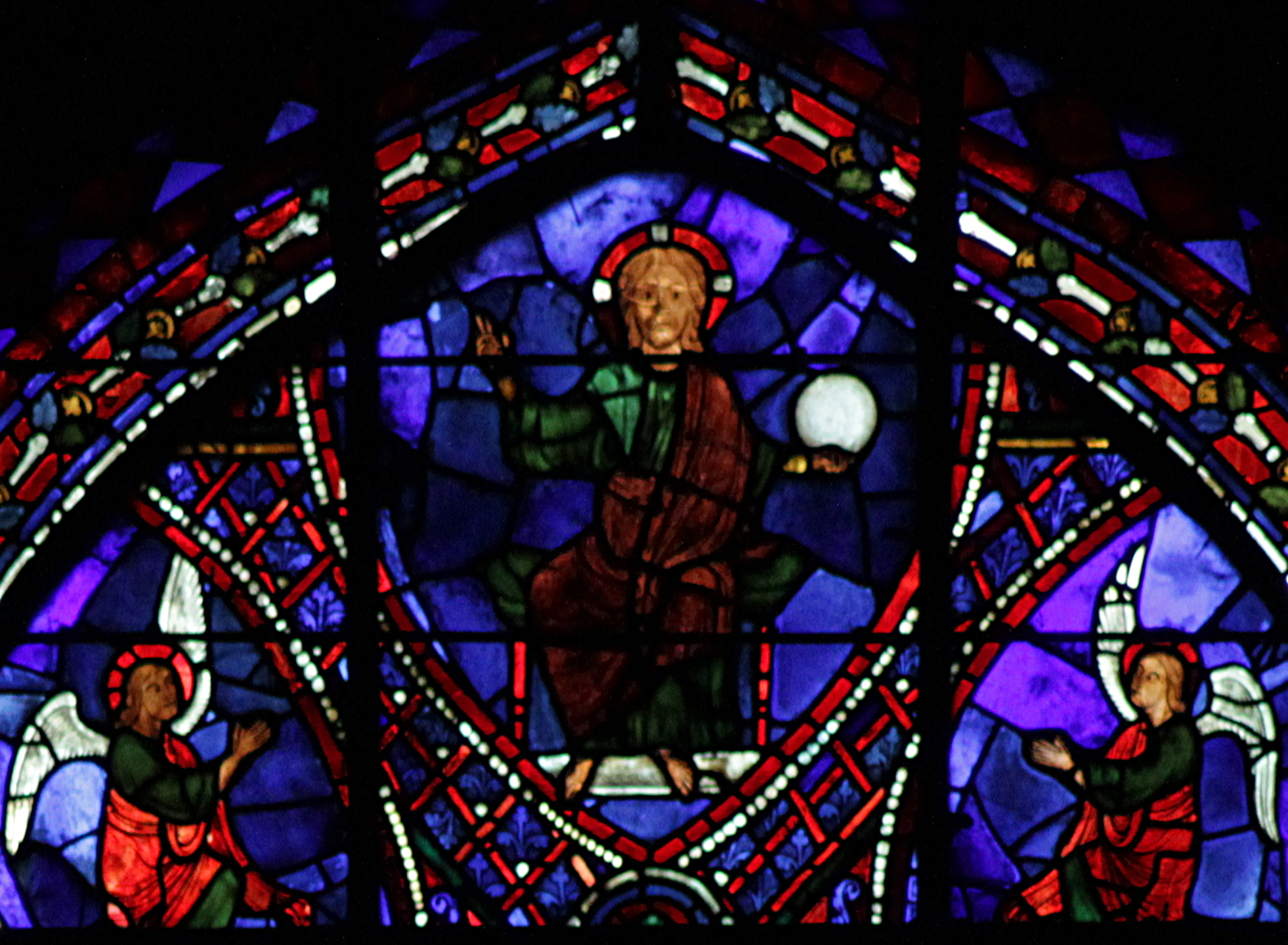 Fragment of File:Chartres 36 -Corrected.jpg - Row 11 : Christ (? or god ?) judging (right hand) the world (left hand), between two angels.